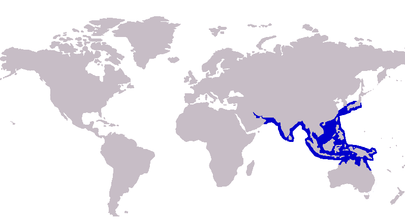 Approximate distribution of the razorbelly scad, Alepes kleinii based on sources given in en wikipedia article. Map base from